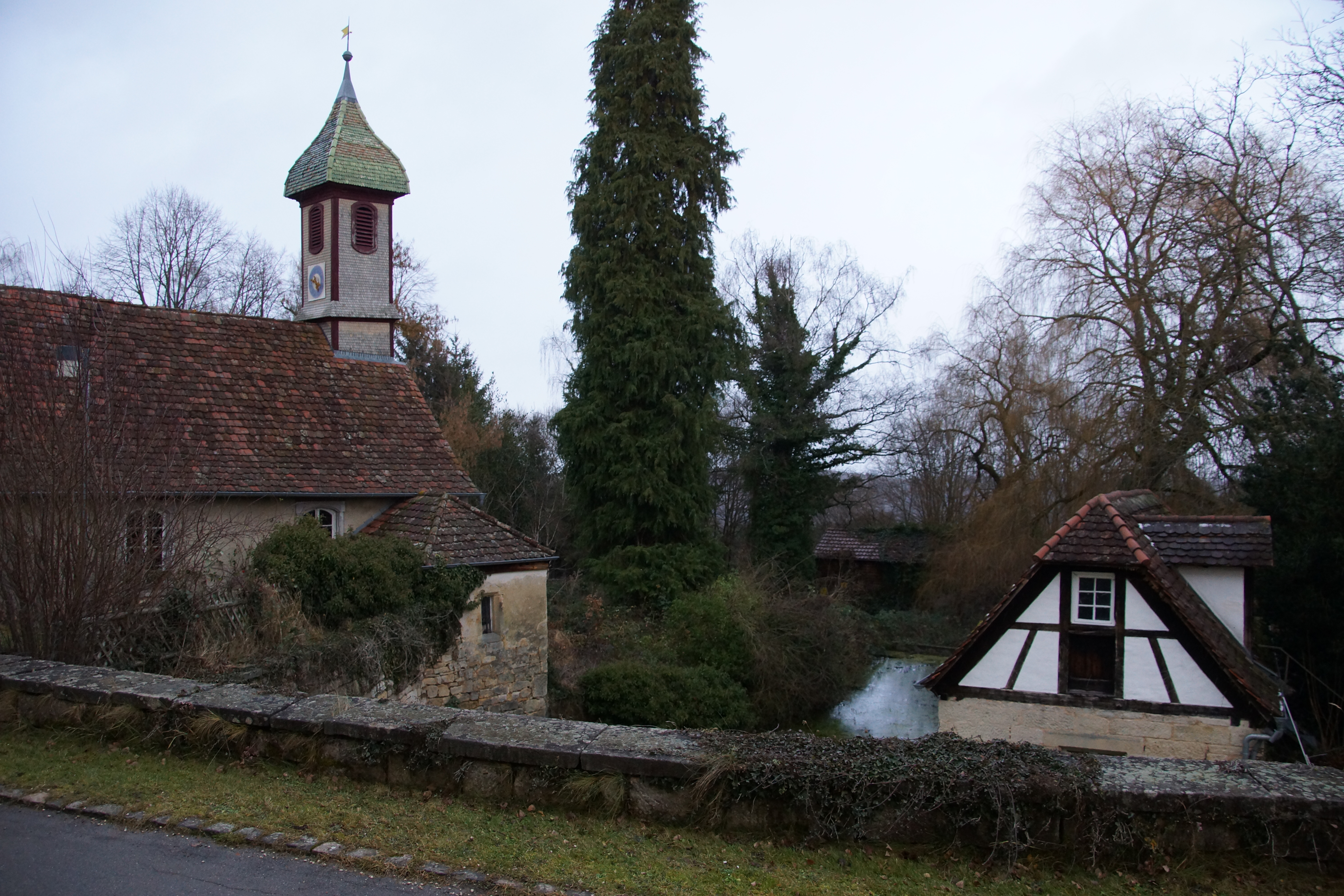 Chapel near Tübingen-Kreßbach castle in Germany